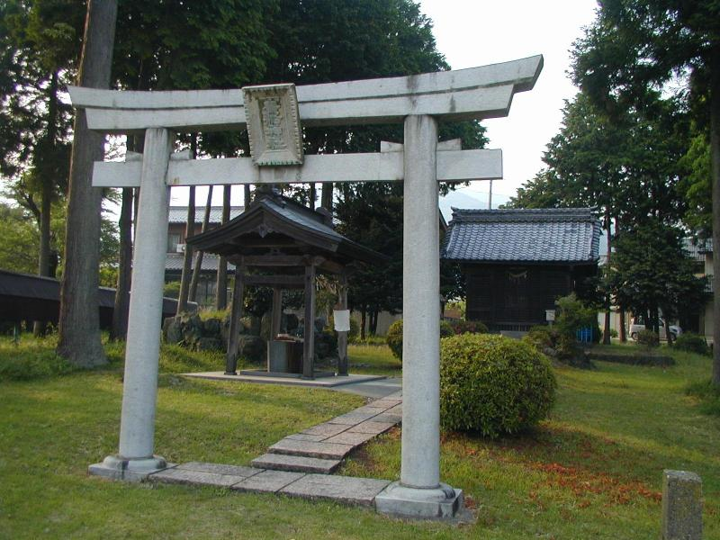 Shrine in Sekigahara, Japan.